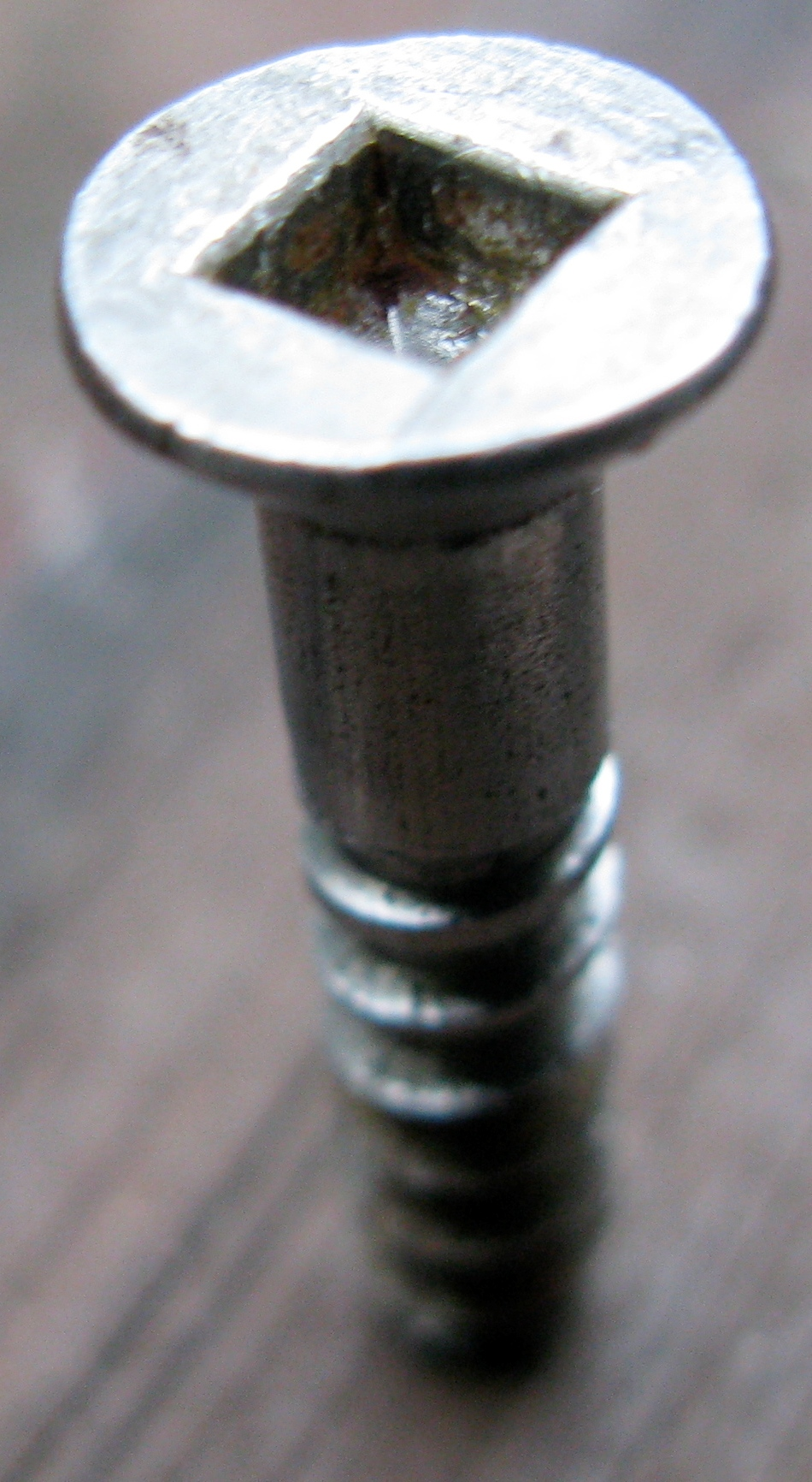 Photograph of a Robertson screw